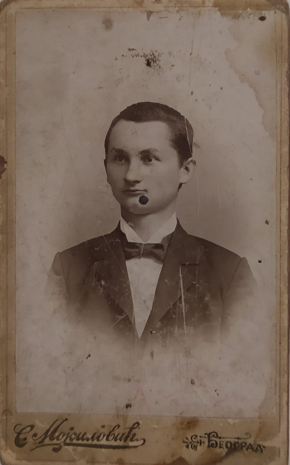 Photo of Vojislav Ilić Mlađi in youth. It can be found in the Society for Culture, Art and International Cooperation Adligat in Belgrade, Serbia. Српски (ћирилица): Војислав Илић Млађи у младости. Фотографија се налази у Удружењу за културу, уметност и међународну сарадњу „Адлигат” у Београду.